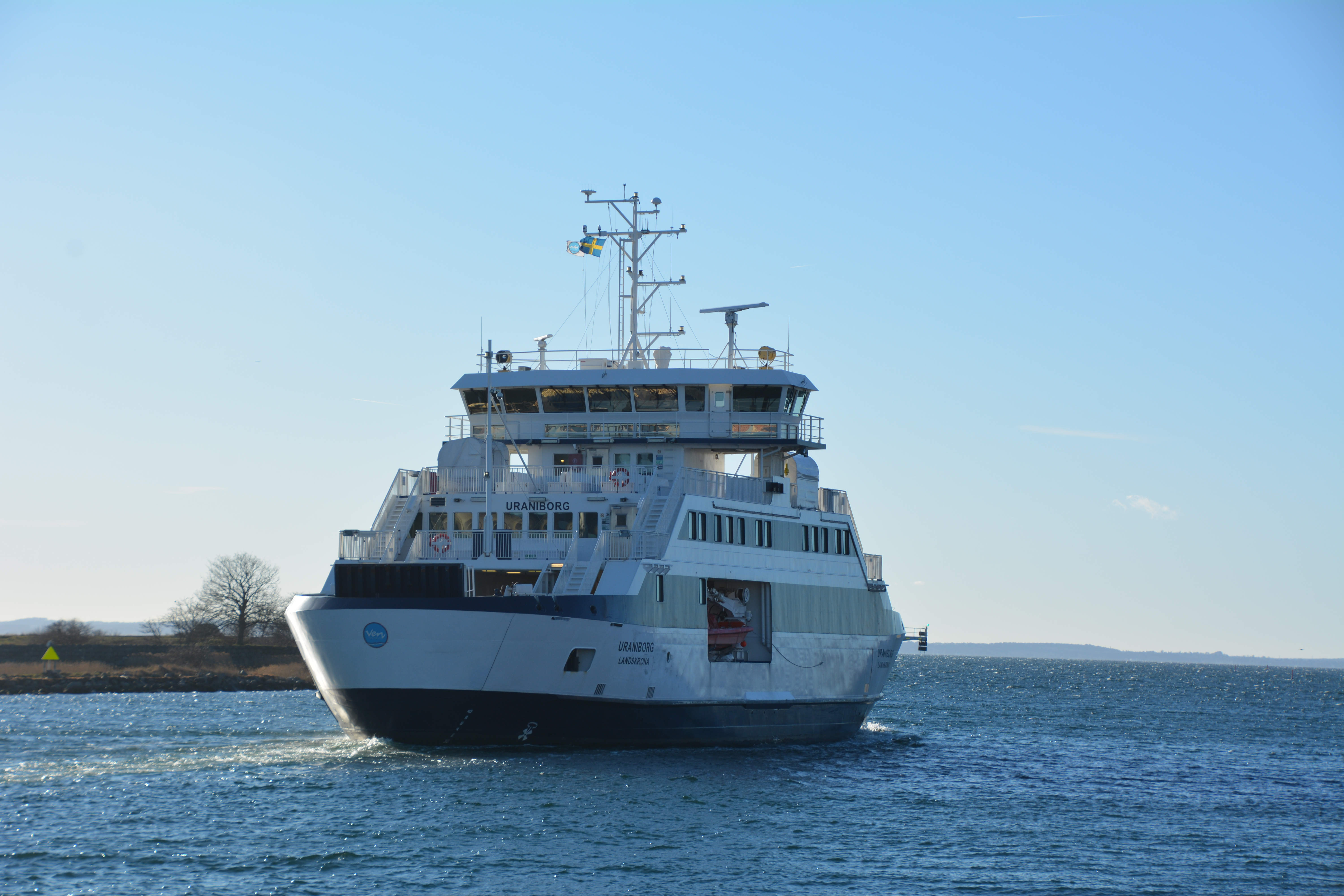 Ferry M/S Uraniborg in Landskrona harbour